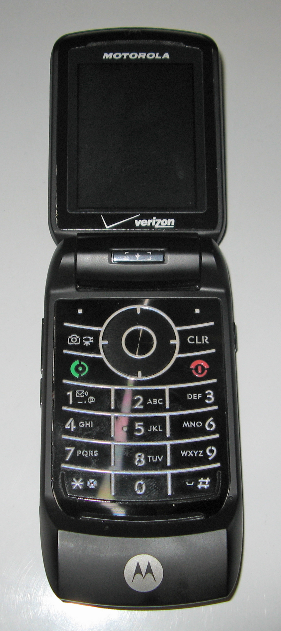 Image of my MOTORAZR maxx cellphone in the Verizon Wireless "Ve" configuration